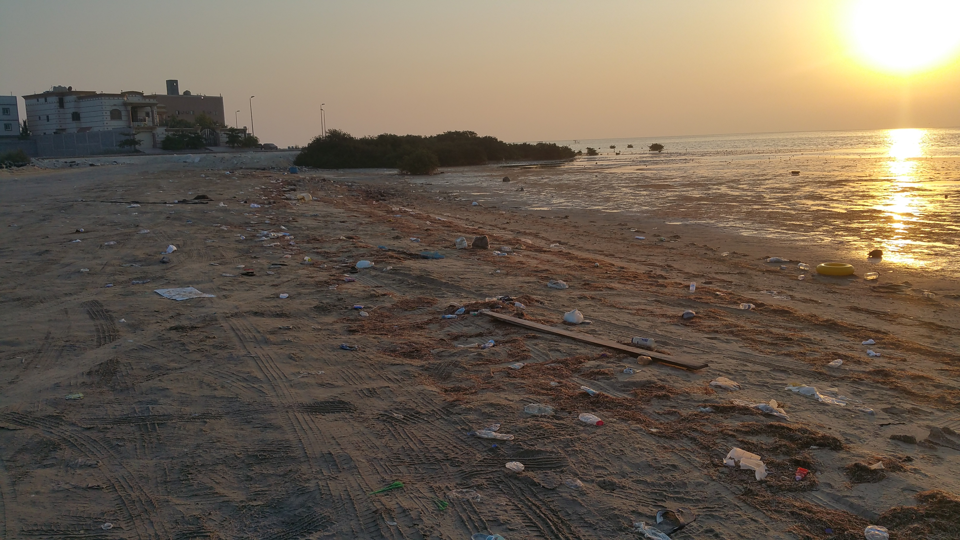 A view of White Ramla beach, in Tarout Island of Saudi Arabia.